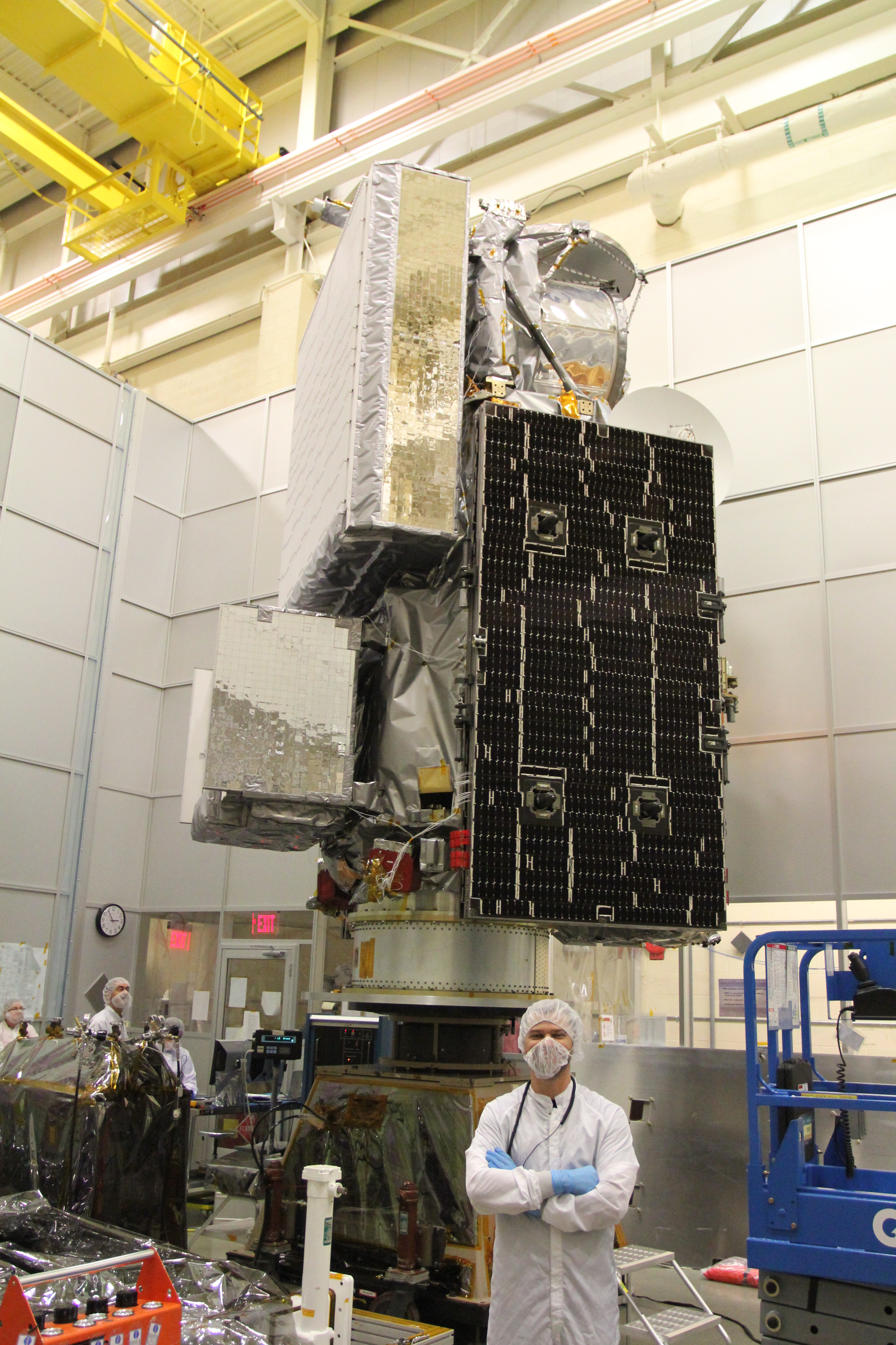 Daniel overseeing the GPM Observatory mass properties test in September 2013.